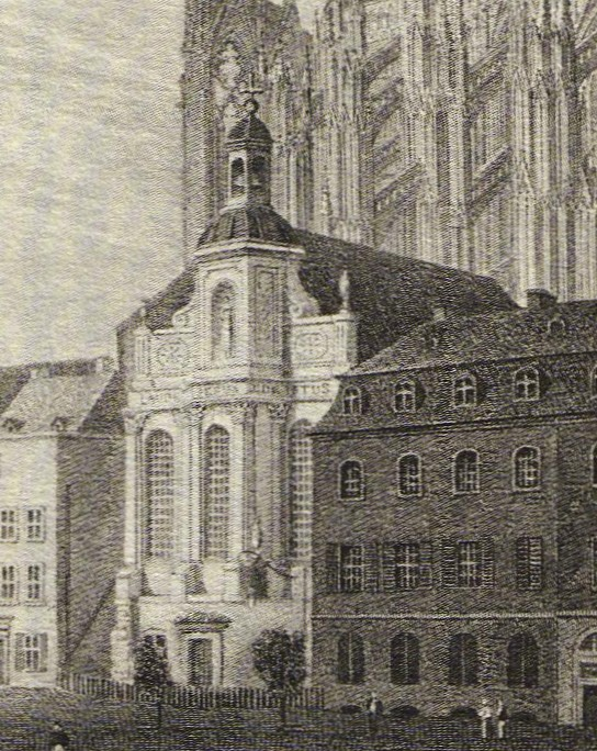 Cologne in 1824: Today demolished church St. Johann Evangelist [Saint John the Evangelist]